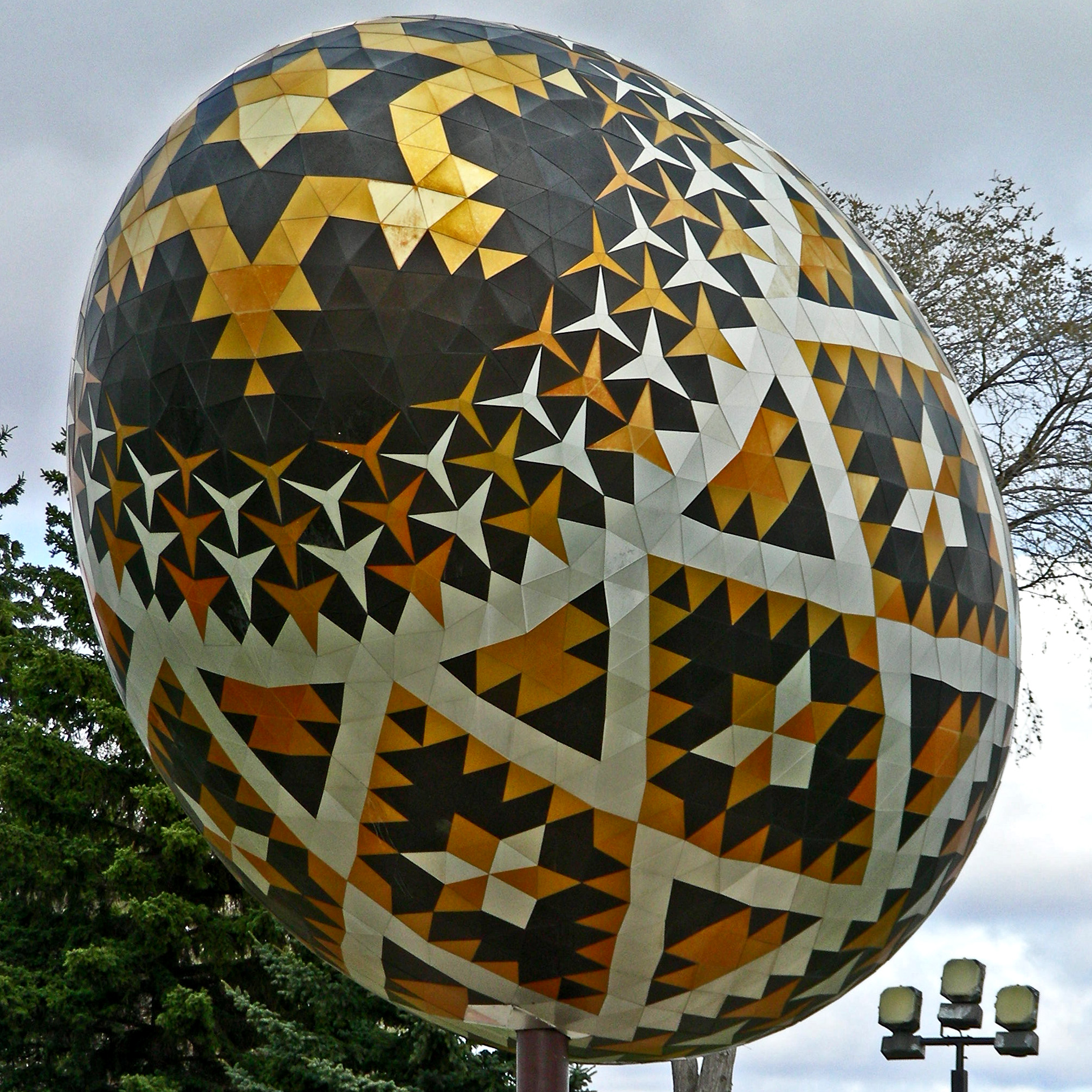 The world's largest pysanka (Ukrainian Easter egg) was created to commemorate the 100th Anniversary of the Royal Canadian Mounted Police in 1974 and to celebrate Vegreville's ethnic heritage.